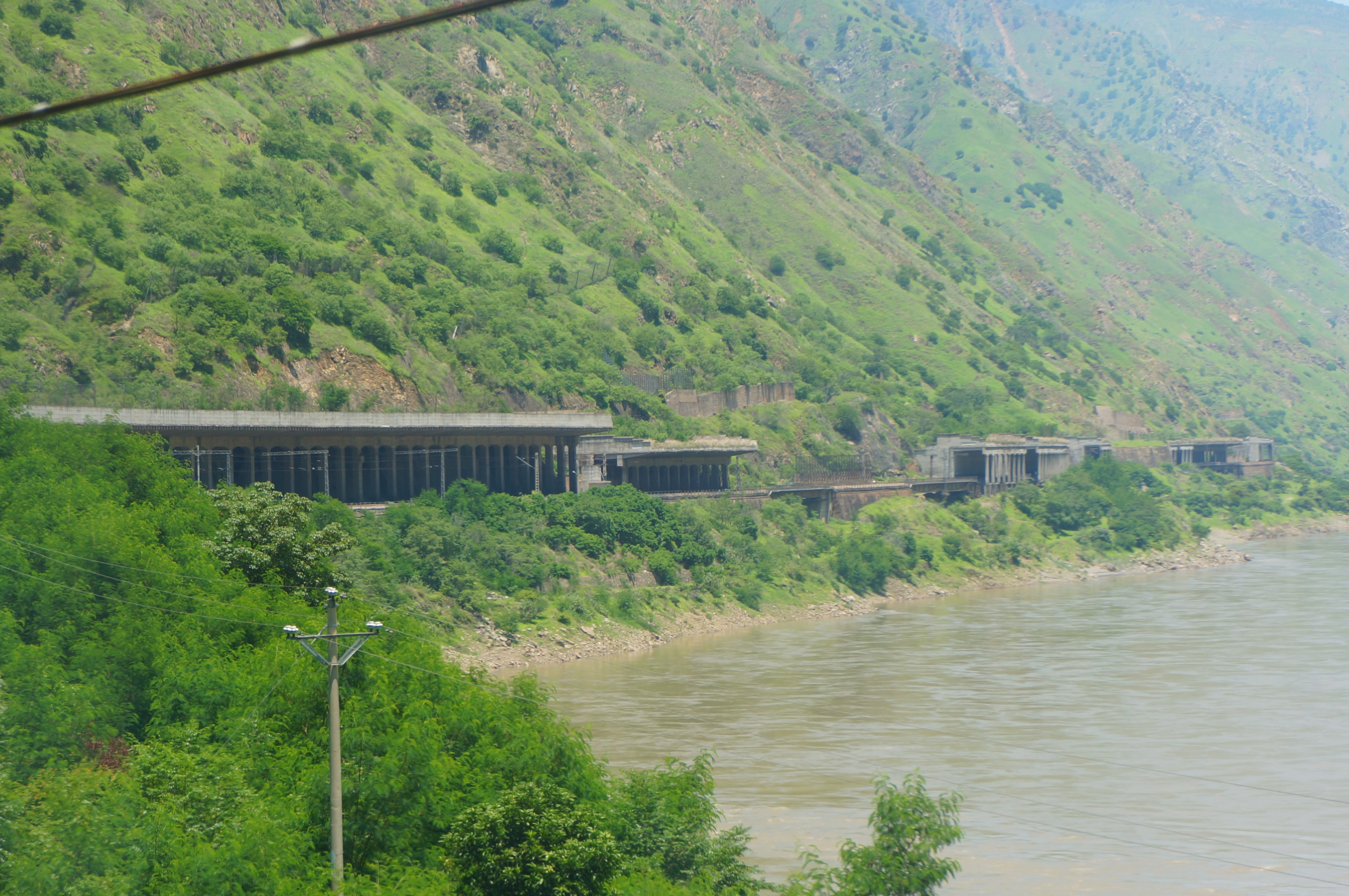 201908 Shed Holes near Xinjiang Station